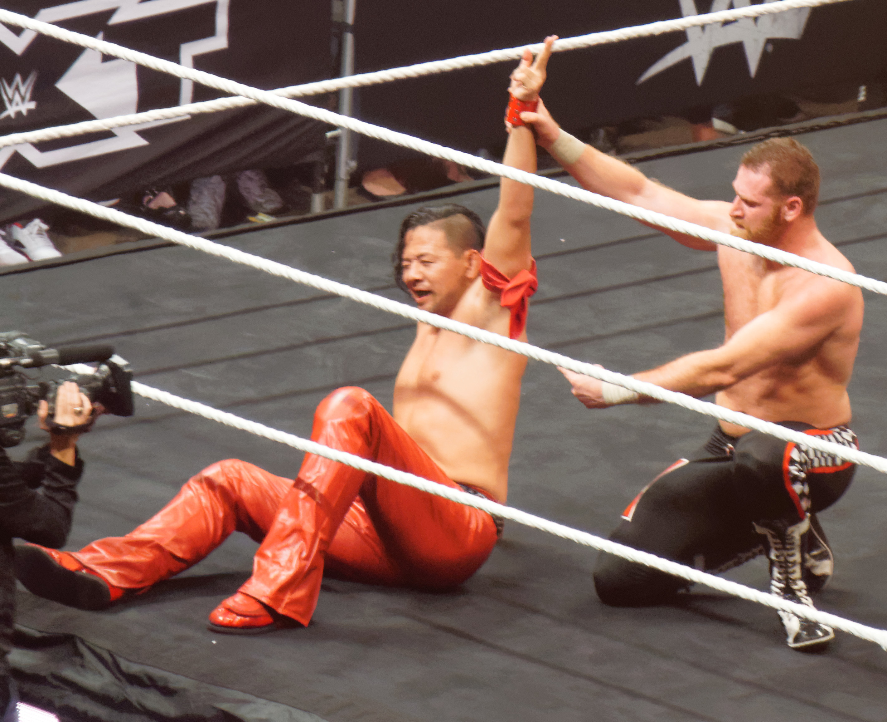 NXT TakeOver: Dallas was a major professional wrestling show in the NXT TakeOver series that took place on April 1, 2016, produced by WWE, showcasing its NXT developmental brand, and was streamed live on the WWE Network. It took place in the Kay Bailey Hutchison Convention Center in Dallas, Texas, during the weekend of WrestleMania 32. It was the first show in the NXT TakeOver series to be broadcast live on the WWE Network during WrestleMania weekend and first of 2016.[4] It was notable for Shinsuke Nakamura's WWE debut and first live match. The event received critical acclaim, with critics endorsing it as being better than WWE's WrestleMania 32 held two days later. The Zayn-Nakamura match was also lauded for being better than any match from WrestleMania 32. Shinsuke Nakamura def. (pin) Sami Zayn